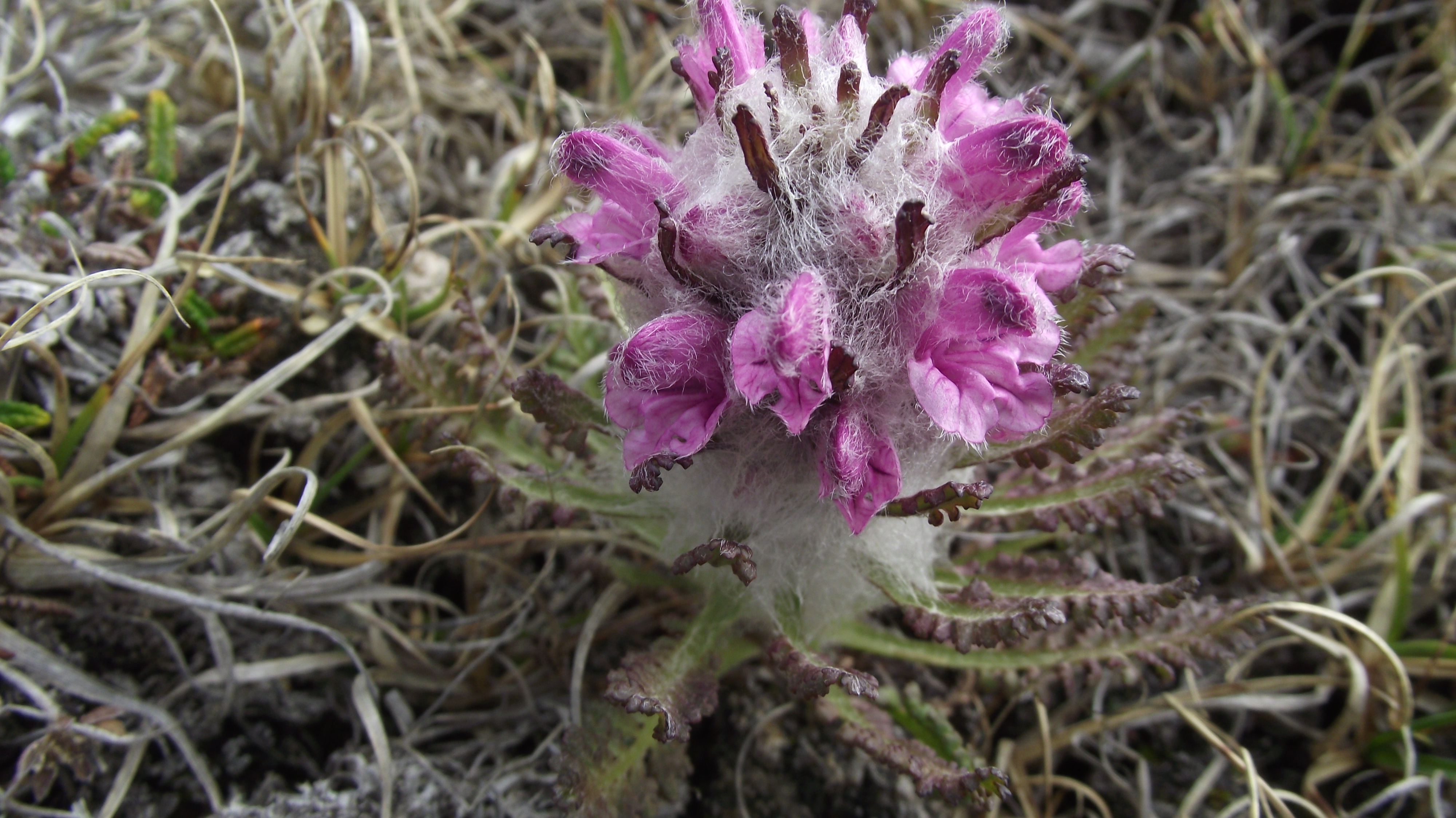 Pedicularis dasyantha flowers in Istfjorden